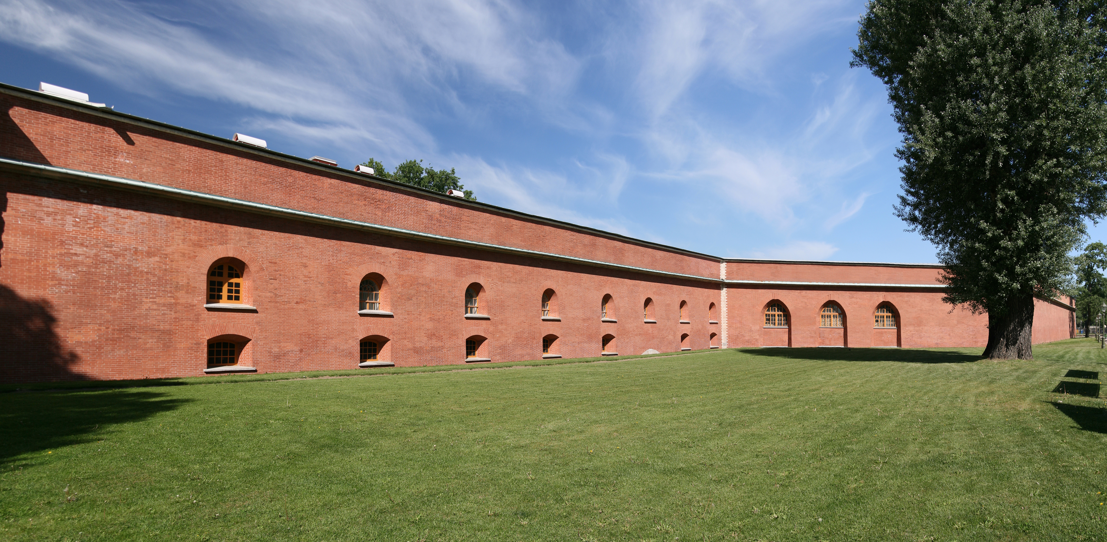 Peter's Сurtain and Menshikov Bastion, Peter & Paul Fortress, Saint Petersburg